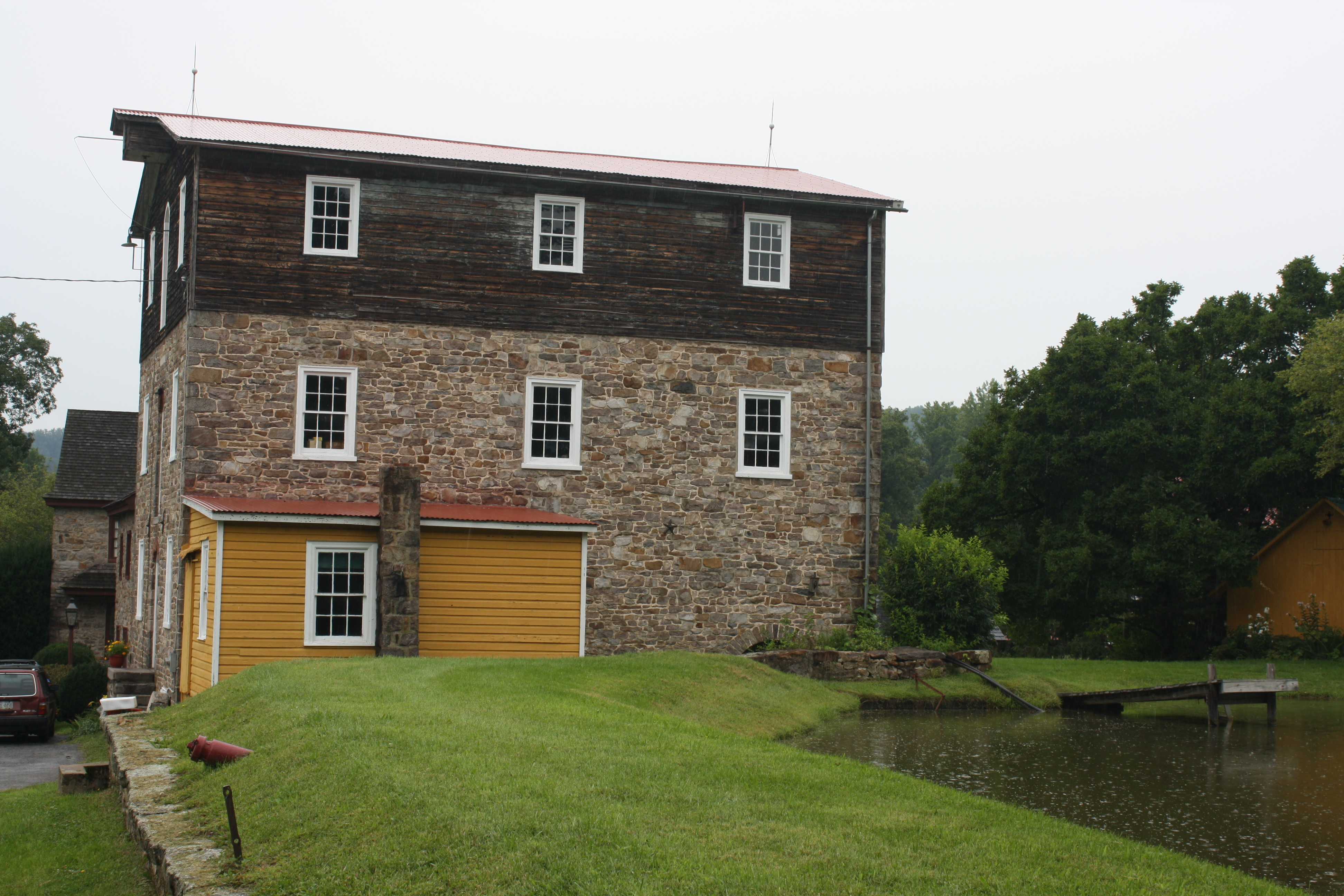 Mill at Lobachsville is a historic grist mill complex located in Pike Township, Berks County, Pennsylvania.